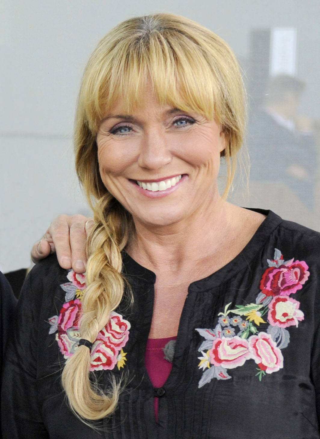 Antikrundan i SVT 2015Bildtext:Producenten Pernilla Månsson Colt, experten Knut Knutson och programledaren Anne Lundberg ser fram emot nya inspelningar för Antikrundan 2015.Foto:Carl-Johan Söder/SVT (BILDEN ÄR BESKUREN)